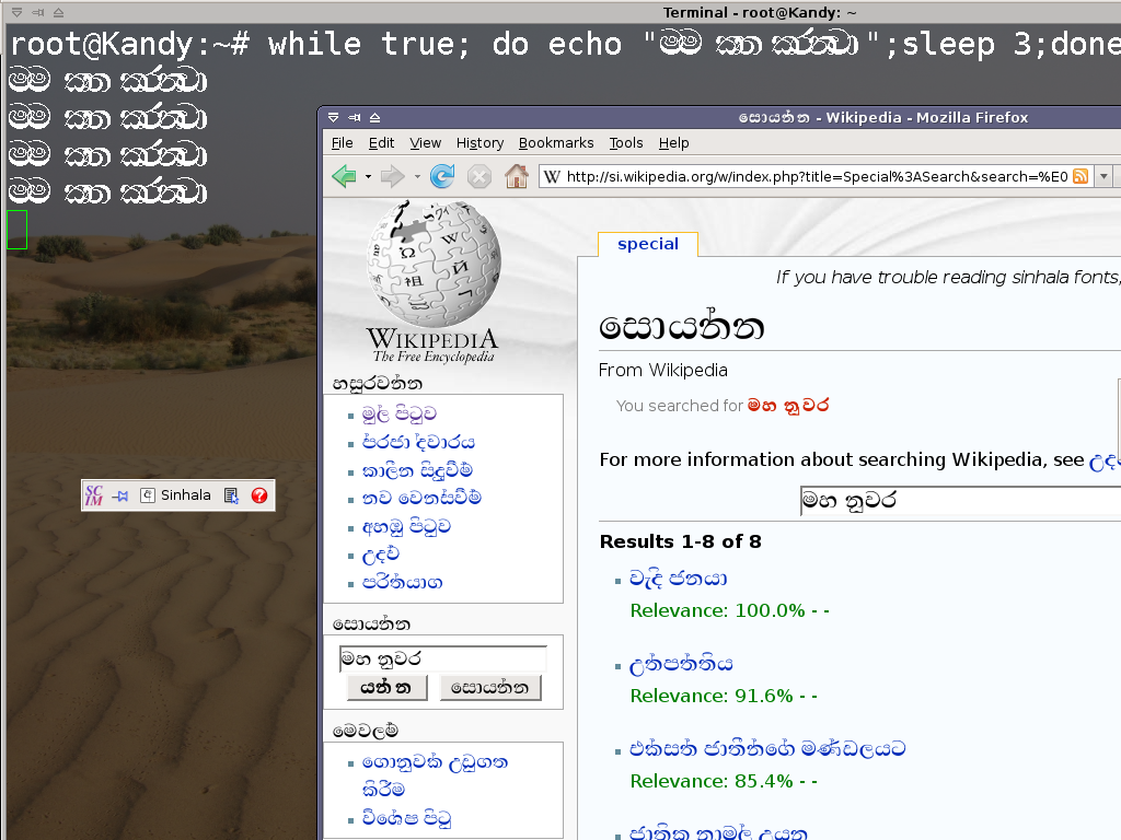 Screenshot of a xubuntu desktop with Sinhala script entered by scim into firefox and a terminal